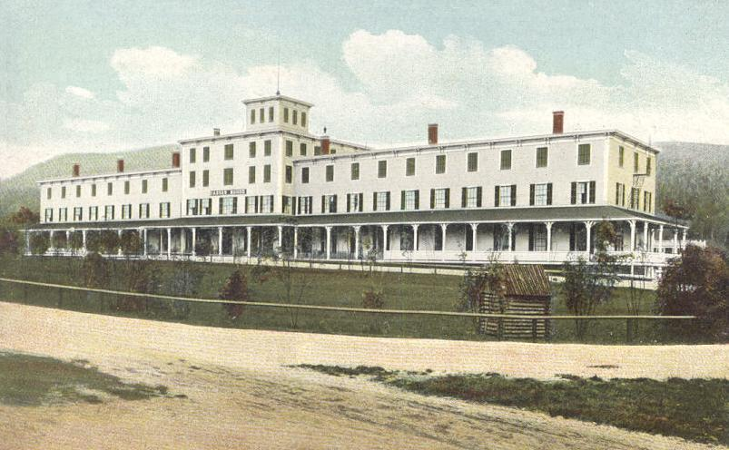 The Fabyan House, Bretton Woods, White Mountains, New Hampshire. With accommodations for 500 guests, the hotel was erected near Fabyan Railroad Station in 1874 by Sylvester Marsh (who also built the Mount Washington Cog Railway) and his colleagues. The hotel burned on September 19, 1951.